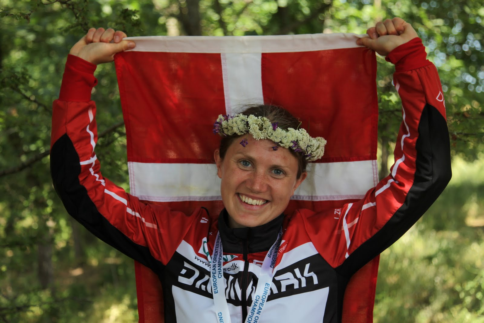 Signe Søes (Orienteer from Denmark) at European Orienteering Championships 2010